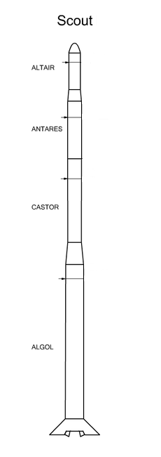 Scout rocket generic scheme.